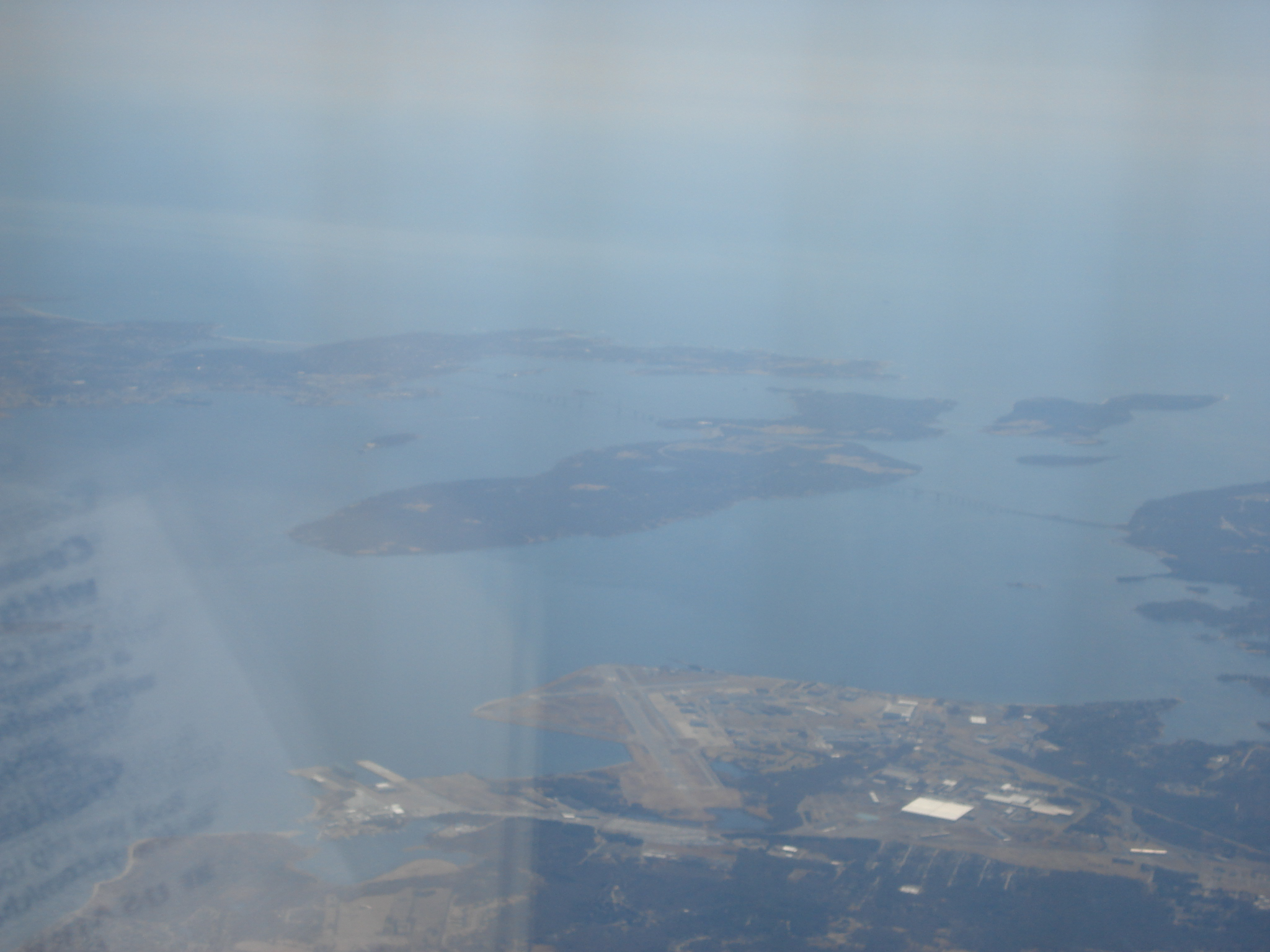 Conanicut Island from above